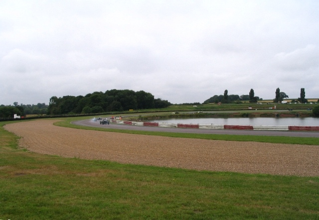 Gerard's Bend. Looking west across Gerard's Bend at the southern end of Mallory Park Circuit. 208292